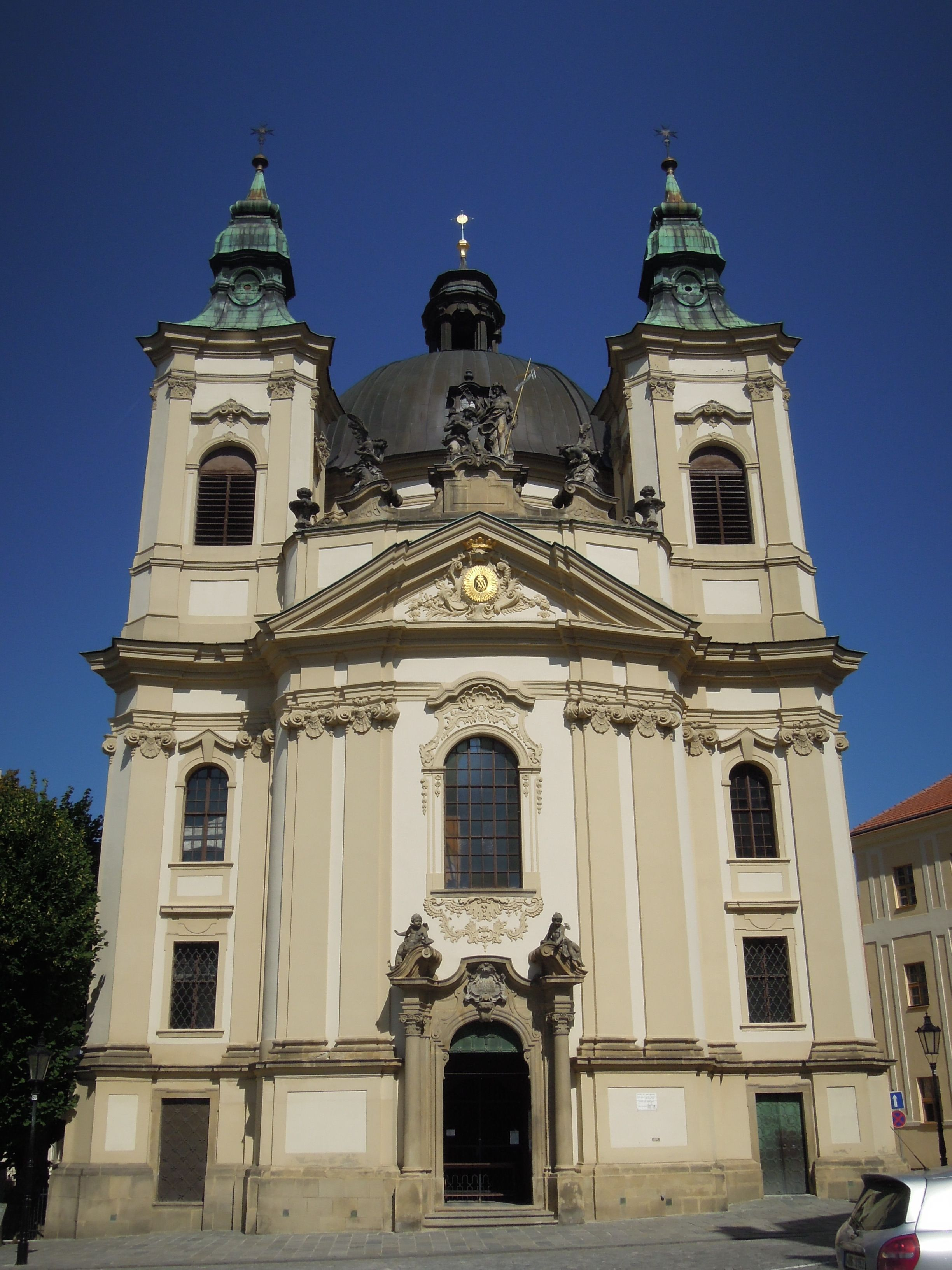 Church of Saint John the Baptist in Kroměříž, Kroměříž District, Zlín Region, Czech Republic